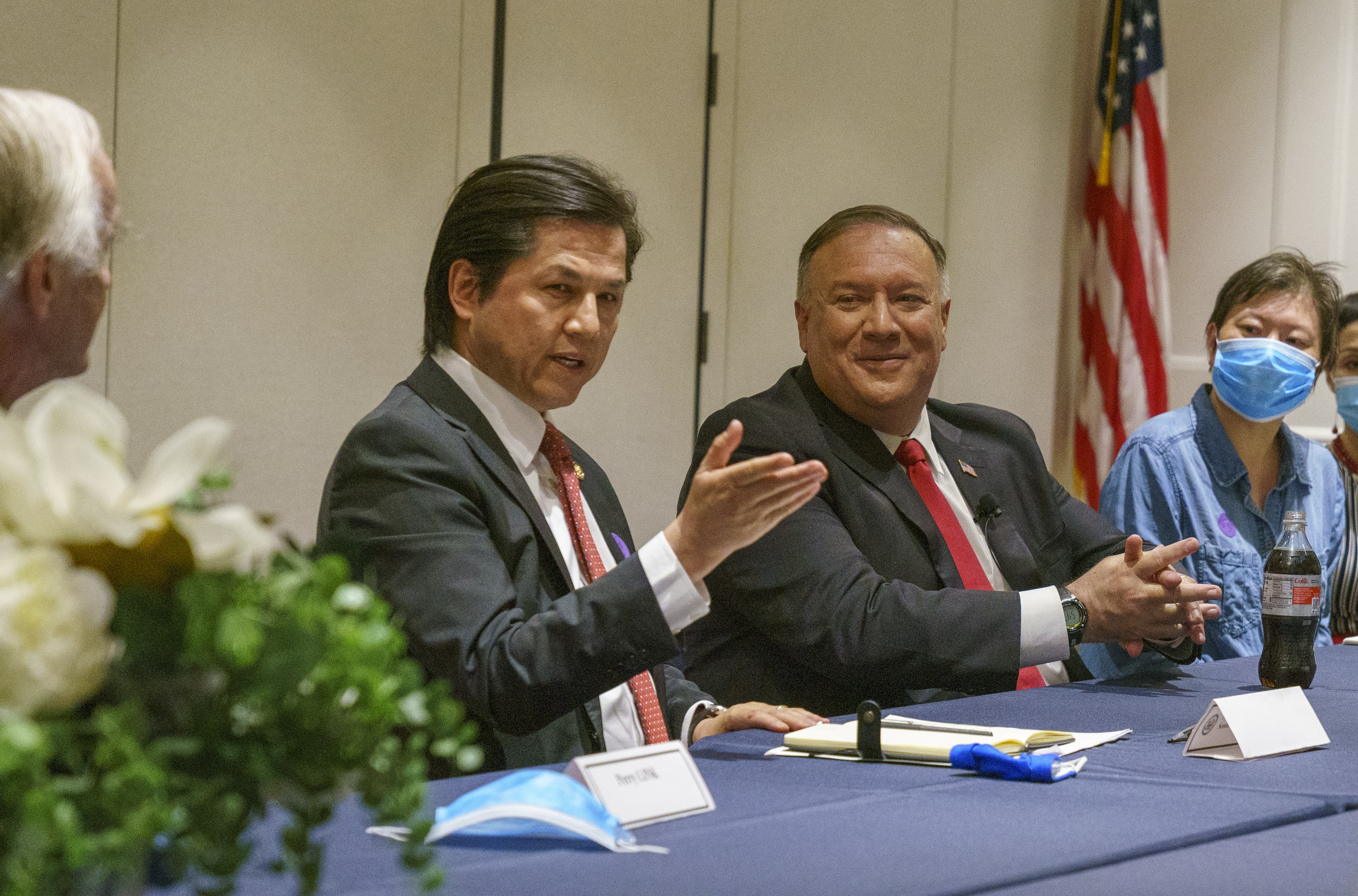 Cropped version of File:Secretary Pompeo Meets With Chinese Dissidents and Members of the Diaspora (50147793747).jpg